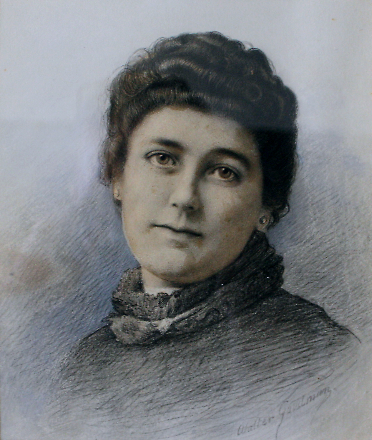 "Longing Eyes" by Walter Goodman, crayon, Private Collection, London ,England.